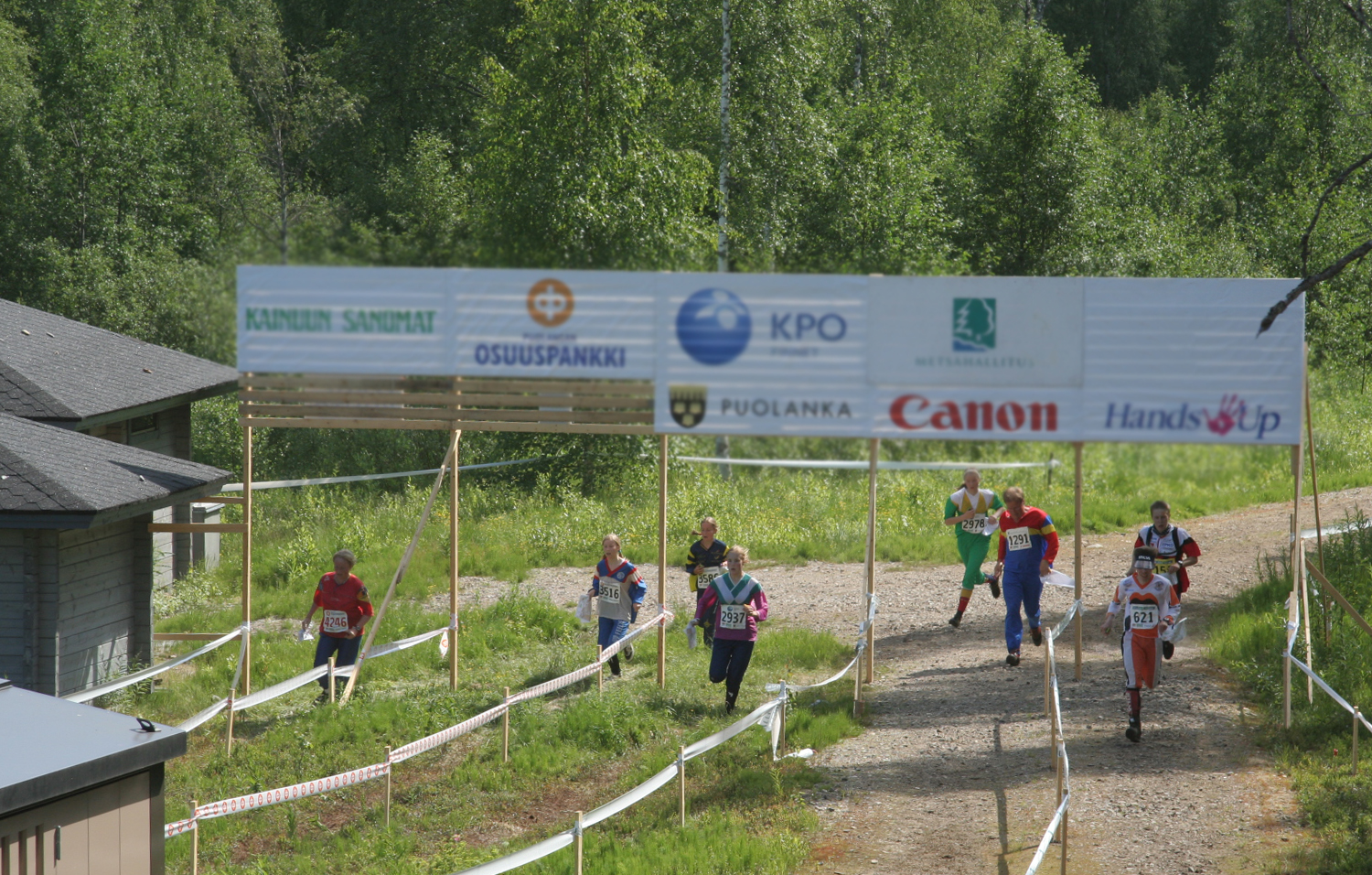 KOW 2005, Finish